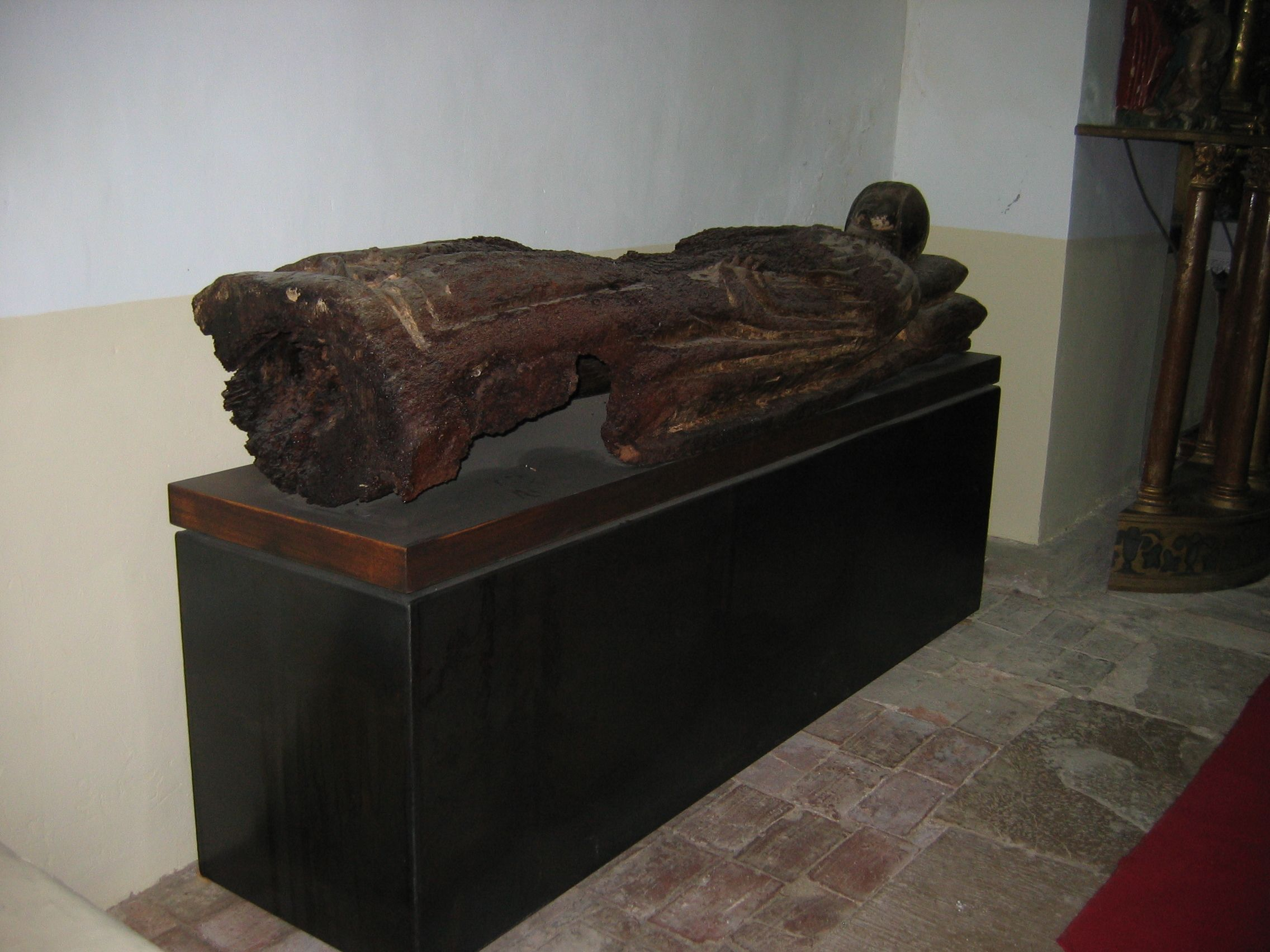 Medieval wooden sarcophagi in the Church of Nuestra Señora de la Asunción in Osorno la Mayor (Palencia, Castile and León).